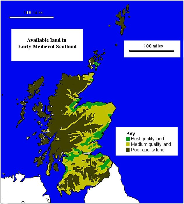 A map showing agricultural land available in early medieval Scotland by colour